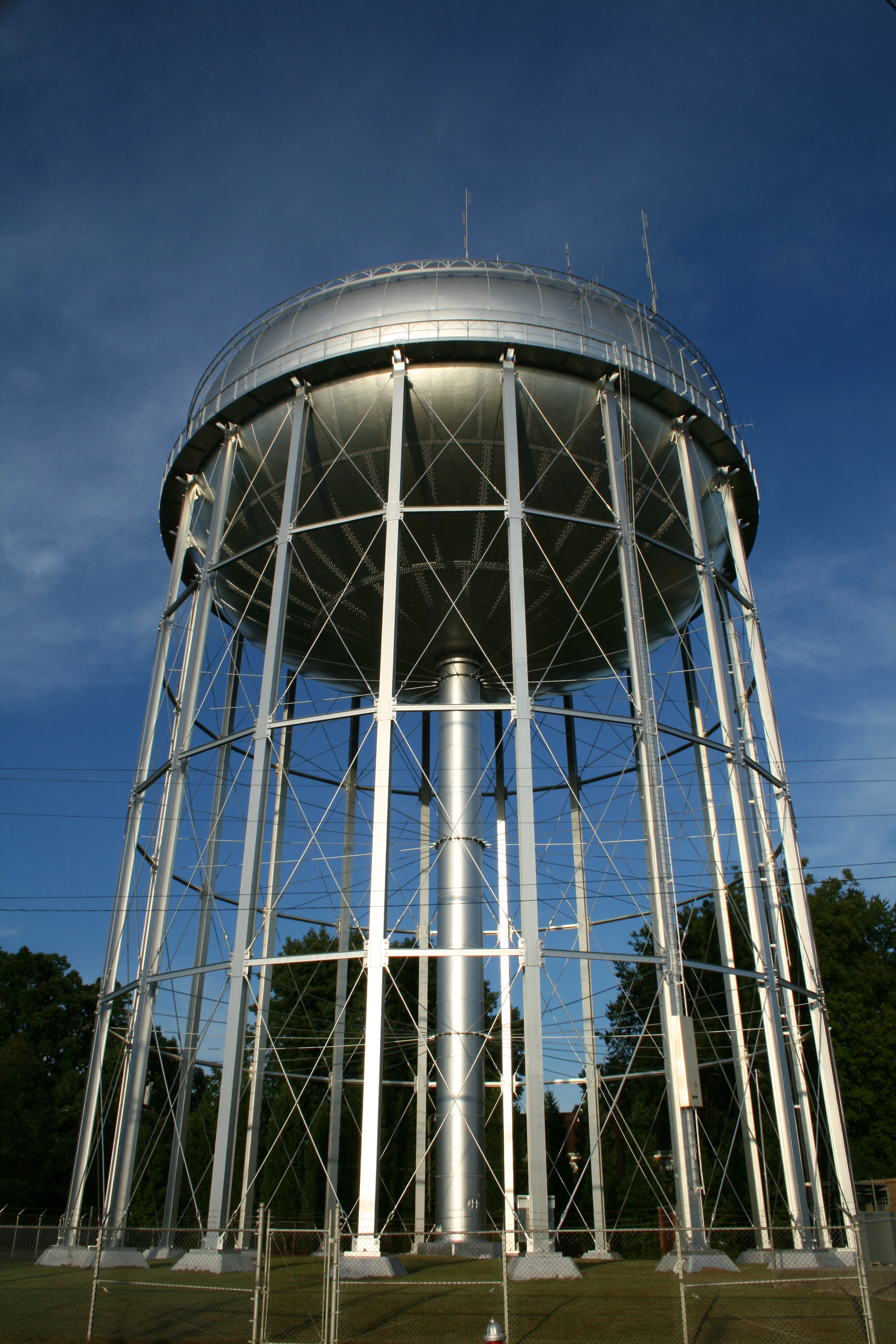 A water tower, viewed from the railroad, in Burlington, North Carolina.